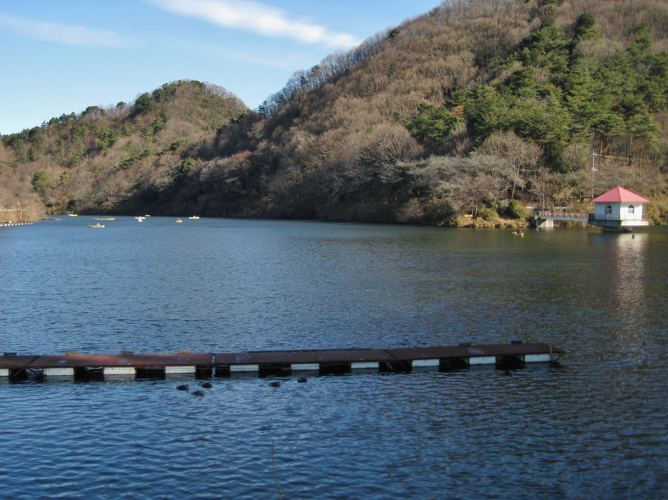 Tsuburada Dam lake.